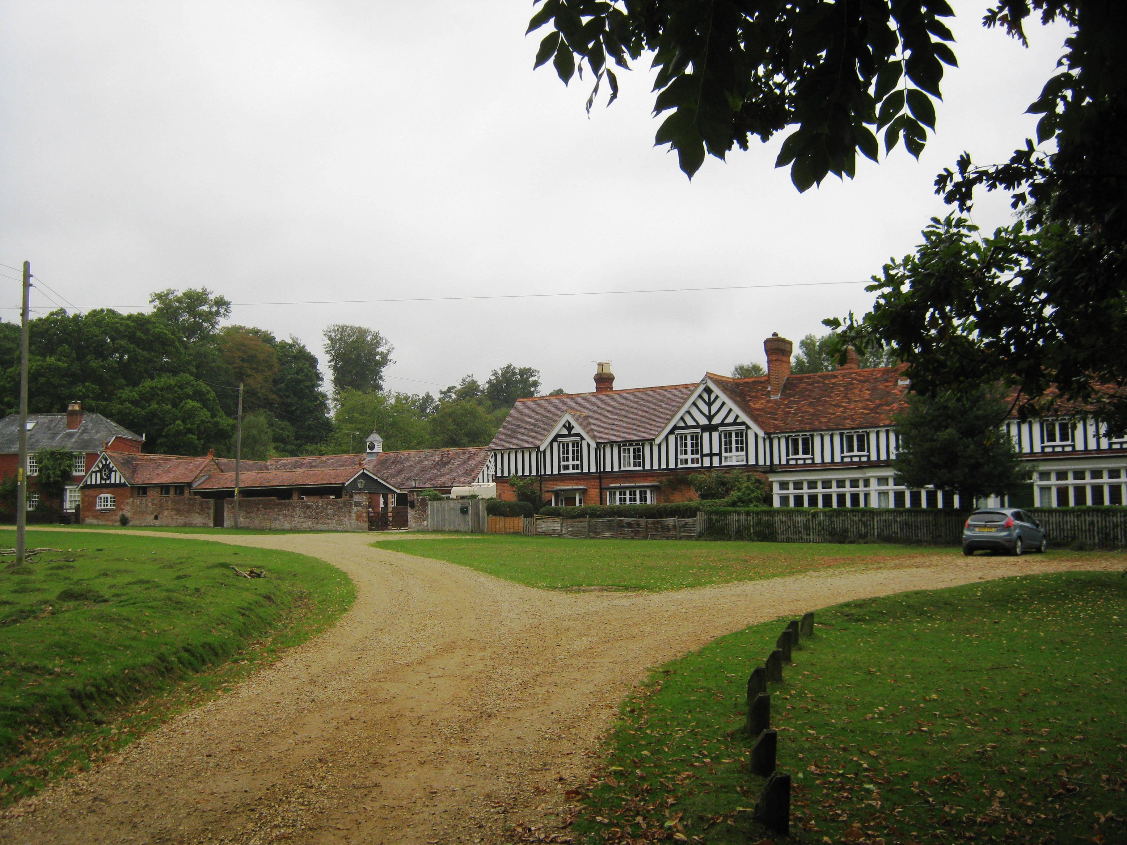 Allum House, New Forest.